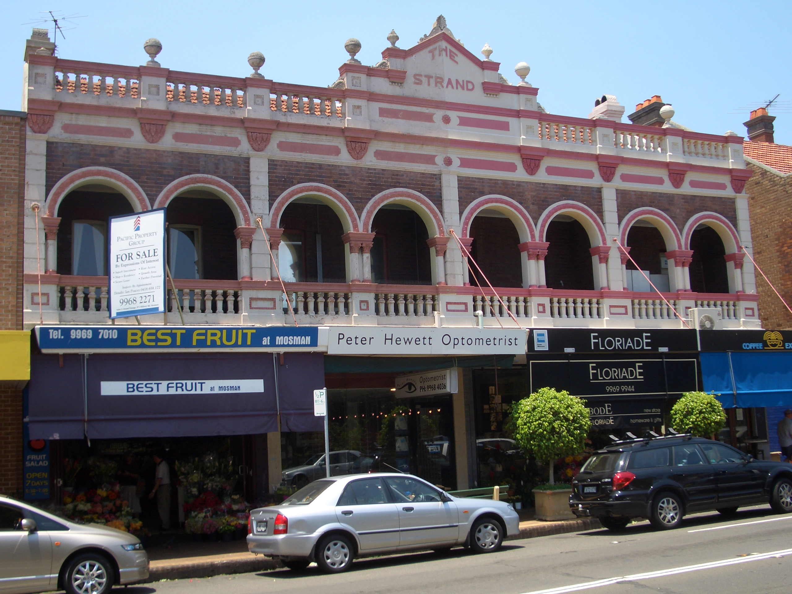 Military Road, Mosman, New South Wales